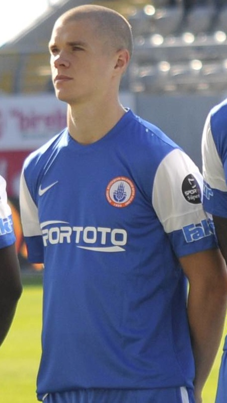 Holmen for İBB Foto:Murat Özgen